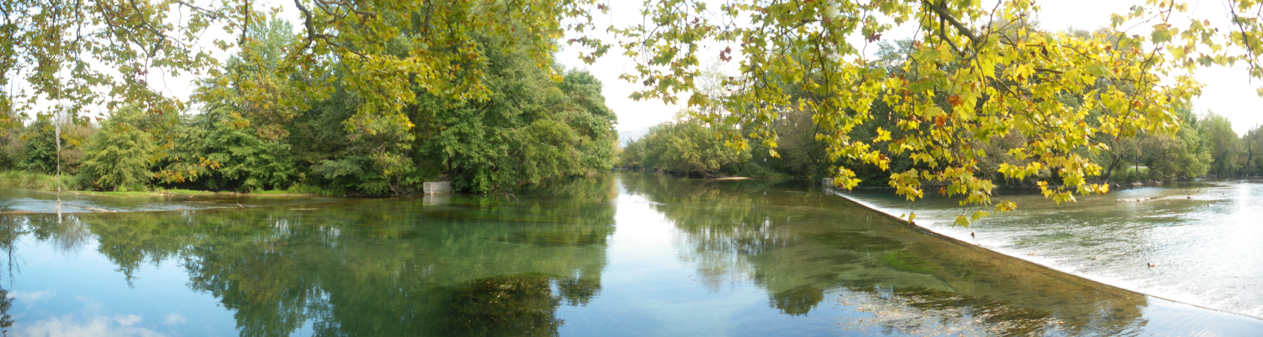 Sorgue : zone of division of water, Village of Isle sur la Sorgue, Vaucluse, France